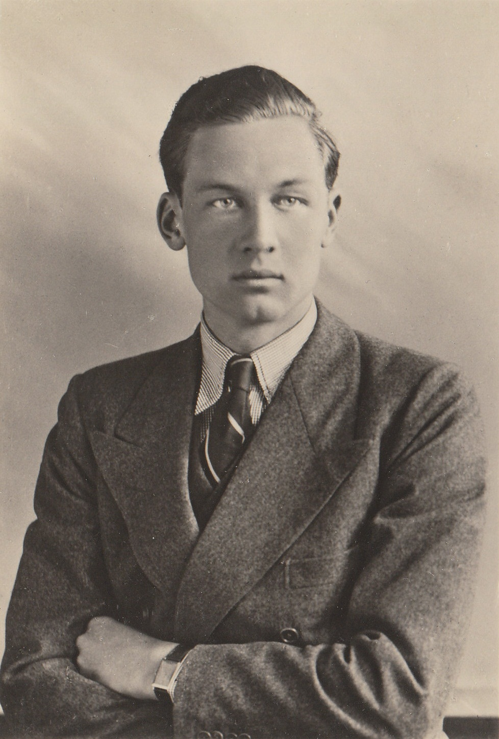 Ernest Augustus, Prince of Hanover and Hereditary Prince of Brunswick